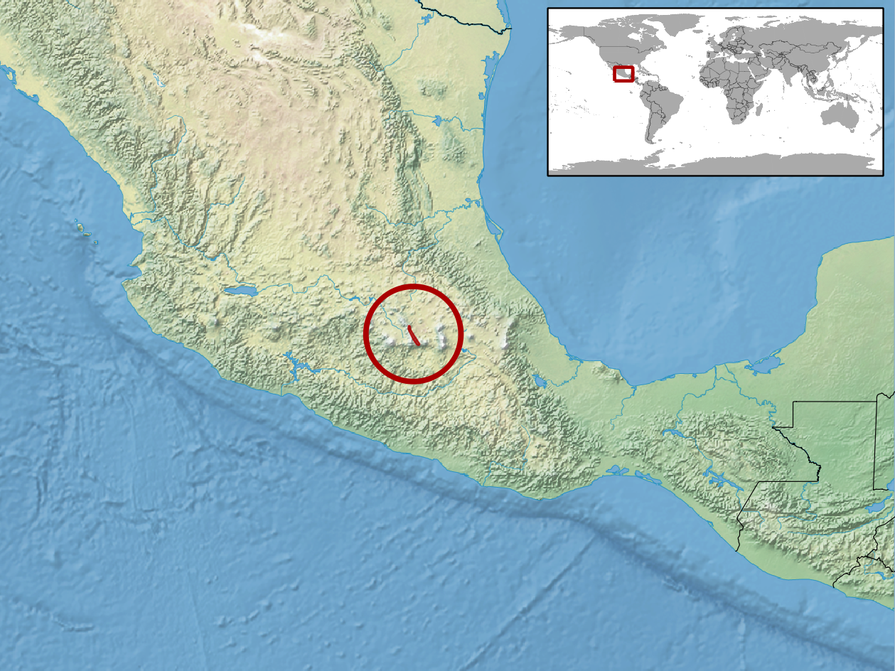 geographic distribution of Crotalus transversus (Native: Mexico)